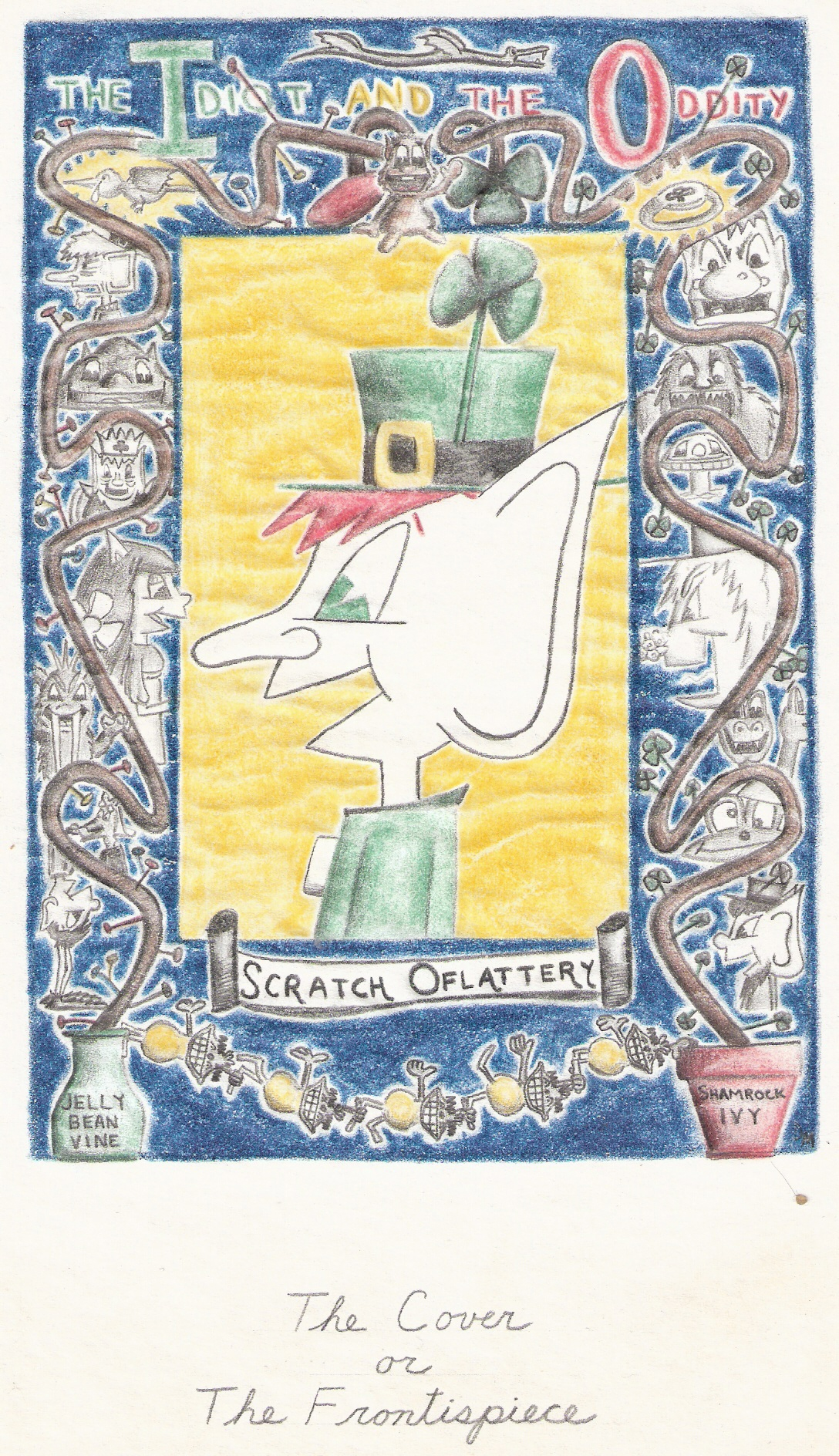 Idiot & Oddity Cover